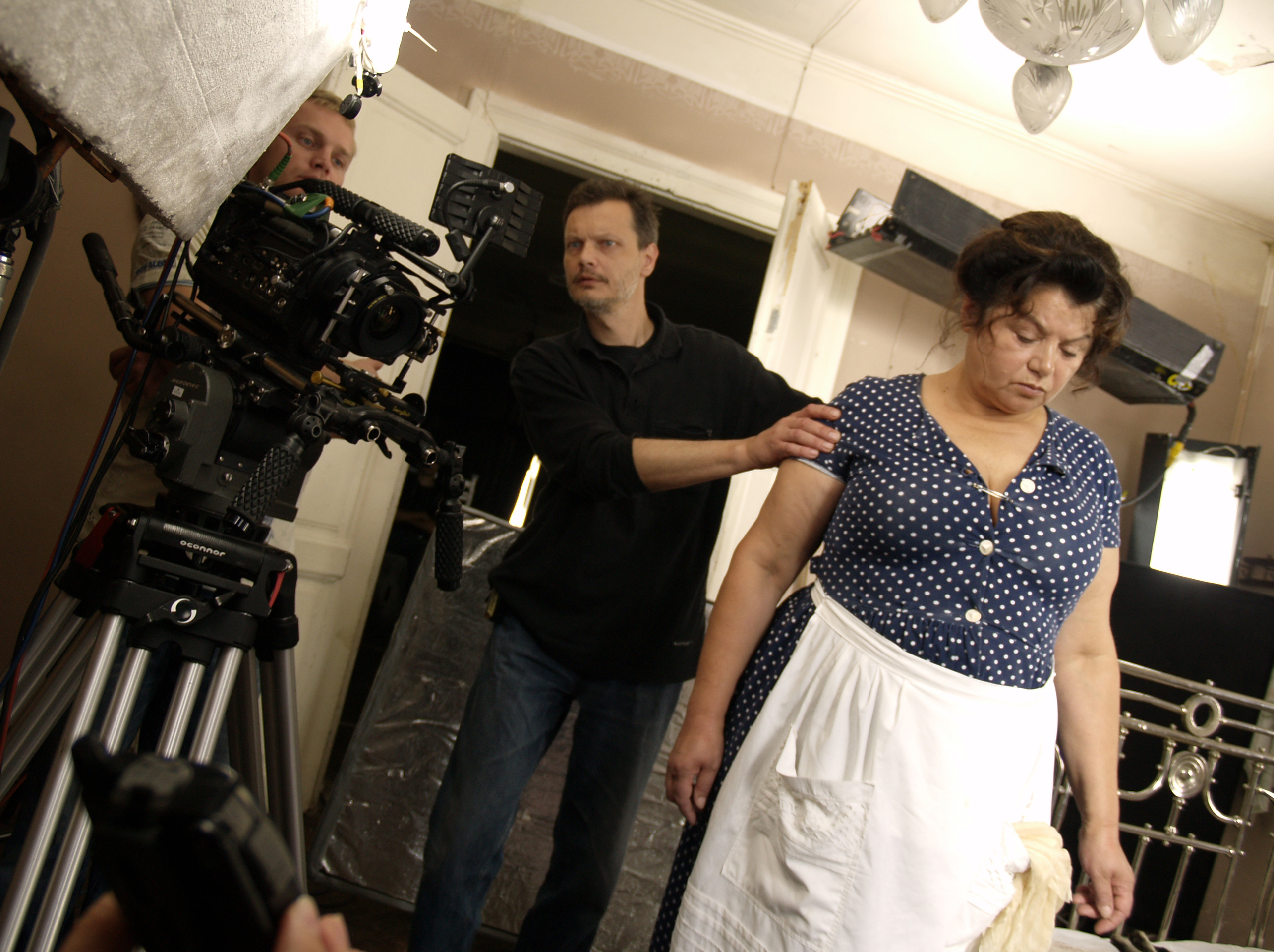 Bryukhovychi (Ukraine). Ihor Podolchak (director), Mykola Yefymenko (DoP) and Lesya Voynevych (actress)